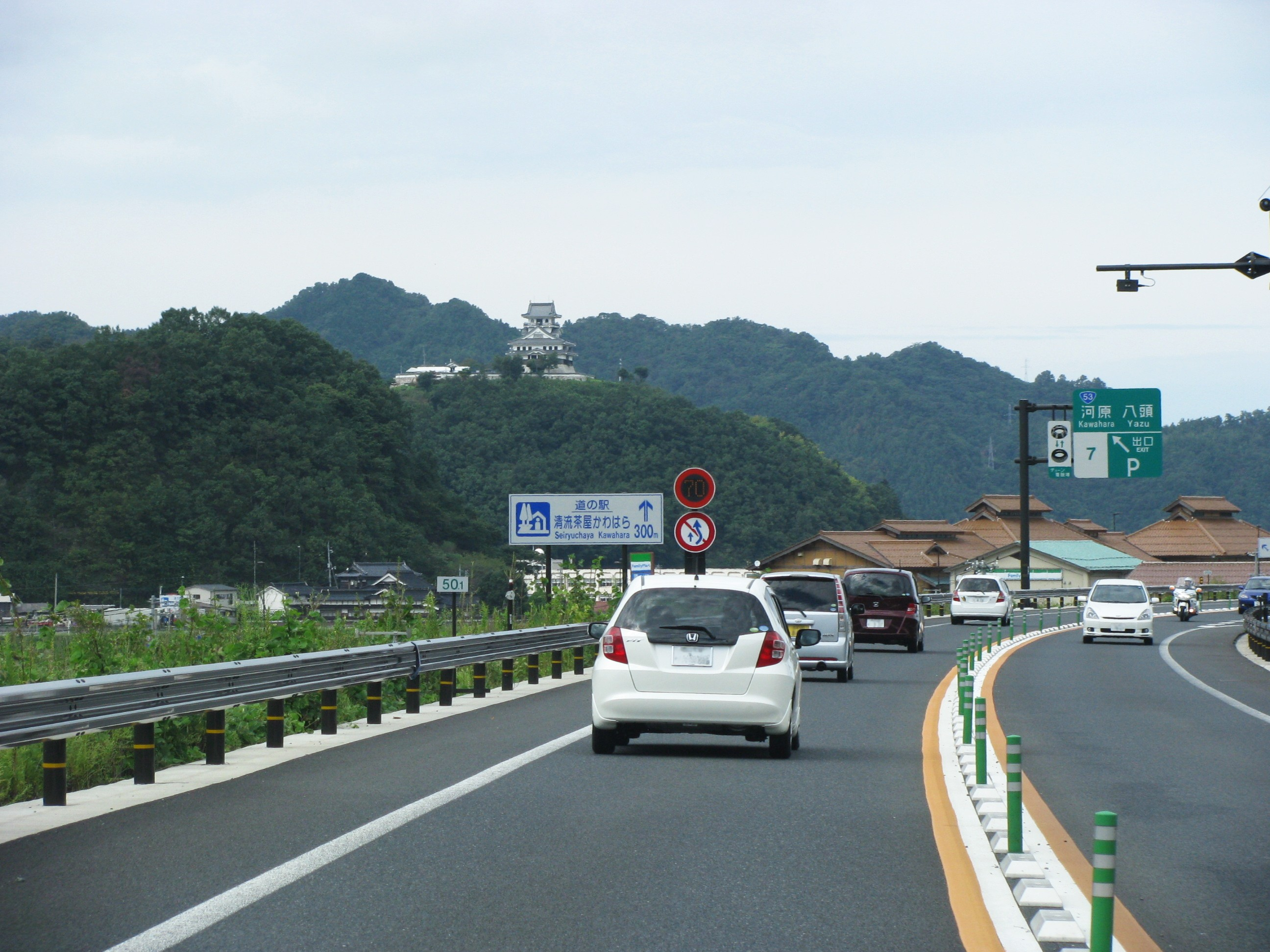 The Tottori Expressway. This place is Tottori, Tottori, Japan.